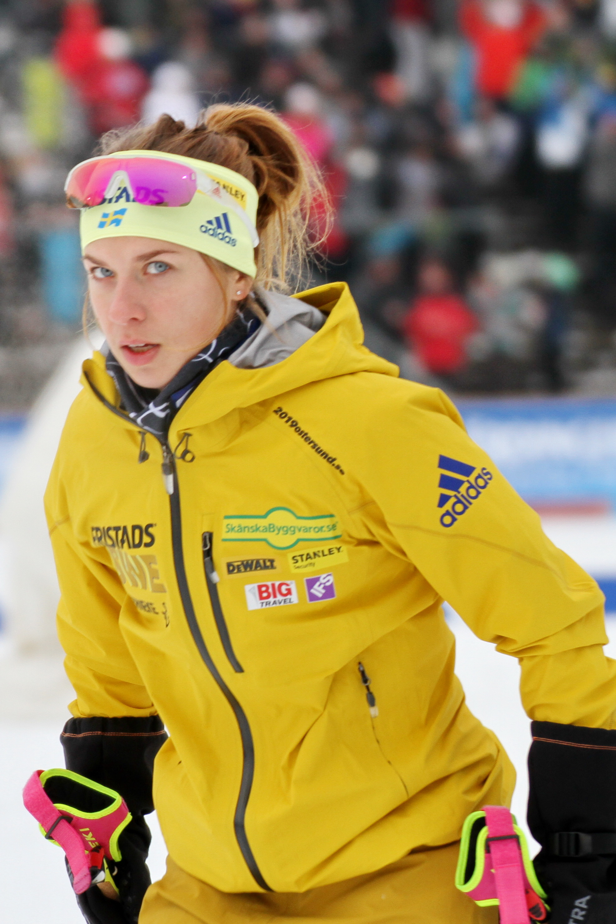 2018 Oberhof Biathlon World Cup - Sprint Women